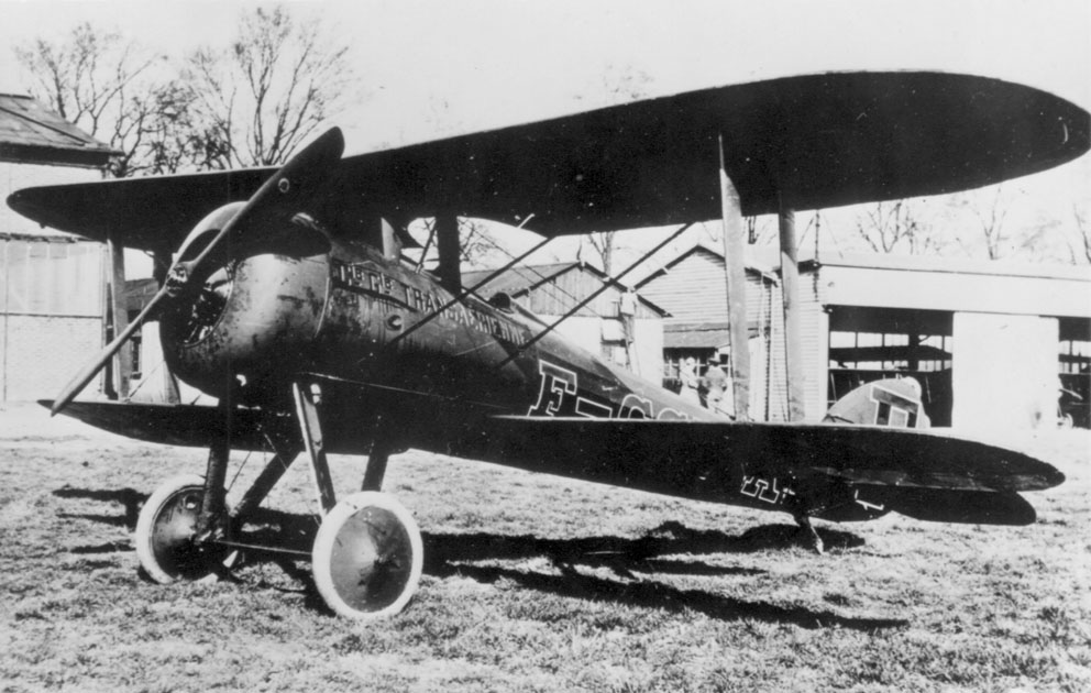 Nieuport 28 C.1 in civil post-war service as courier aircraft